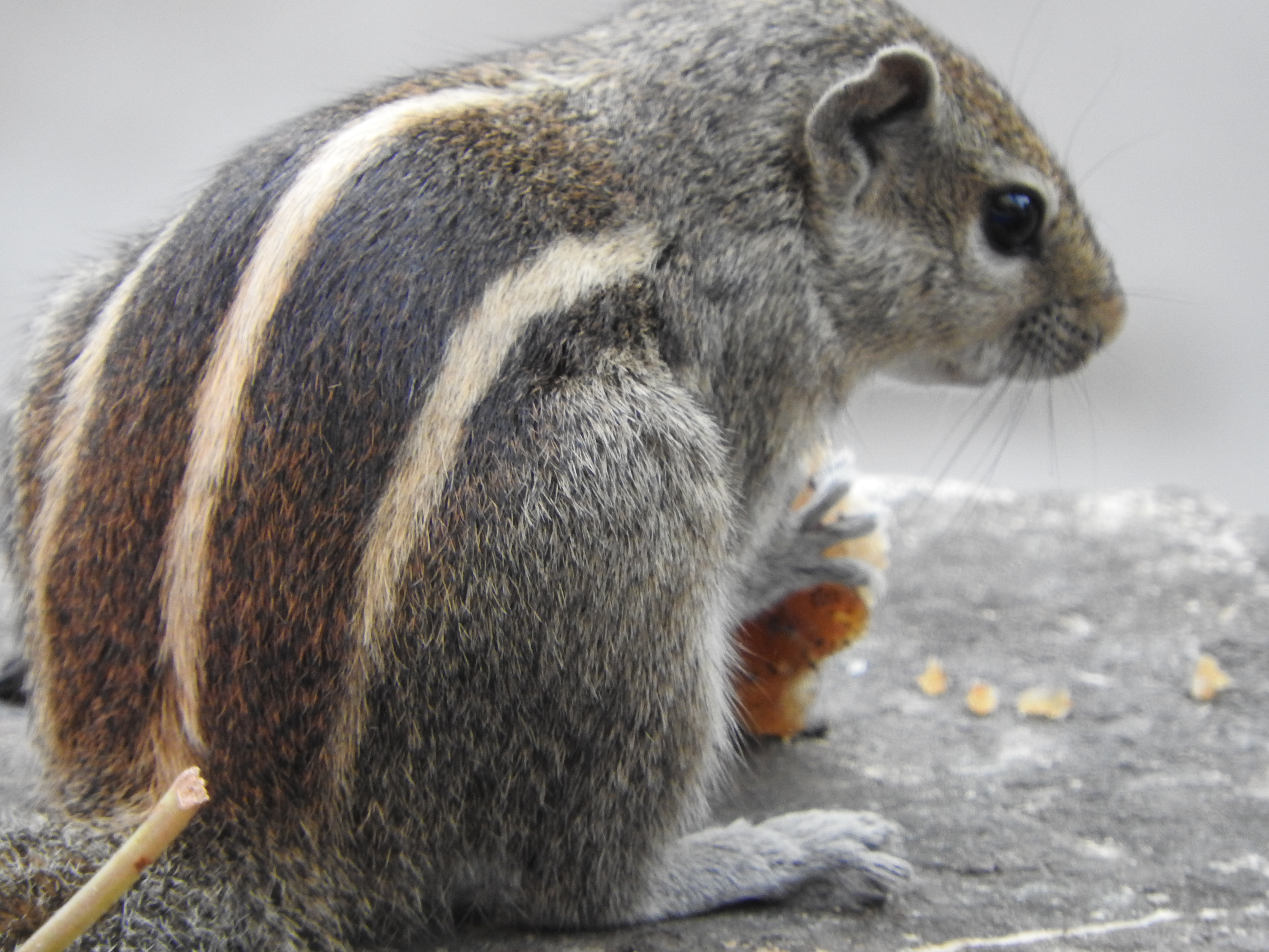 Indian Palm squirrel